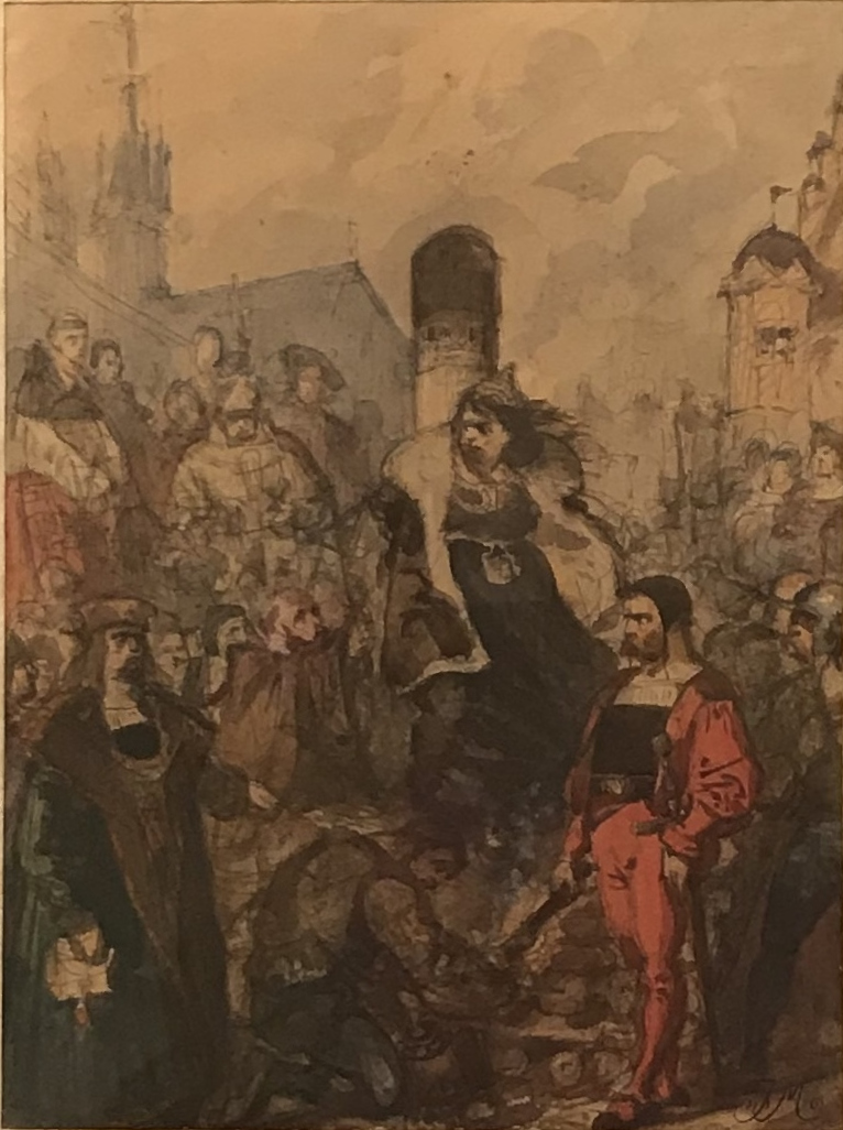 Watercolour painting of Jan Matejko 1859: Burning at the stake of Katarzyna Malcherowa (Weigel) in Kraków in 1539